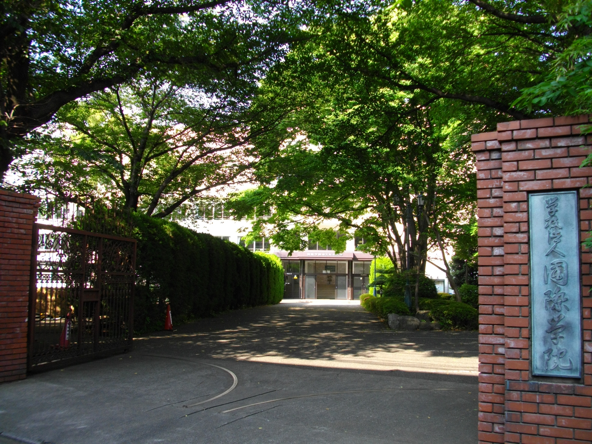 Kokusai Gakuin Saitama Junior College